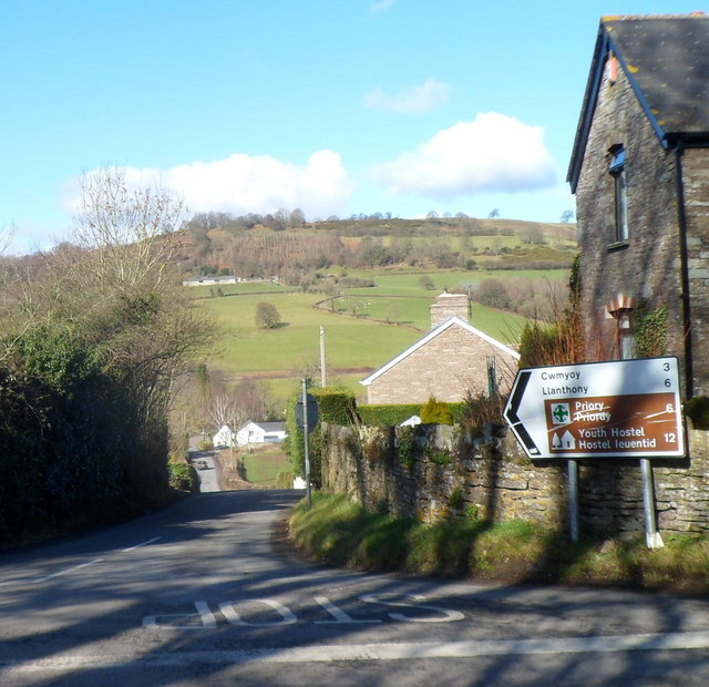 The road junction near the Skirrid Inn, Llanvihangel Crucorney, Monmouthshire. Three miles to Cwmyoy and six miles to Llanthony.